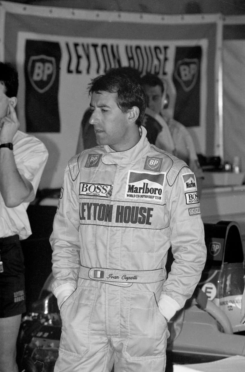 Ivan Capelli at the 1991 US Grand Prix.